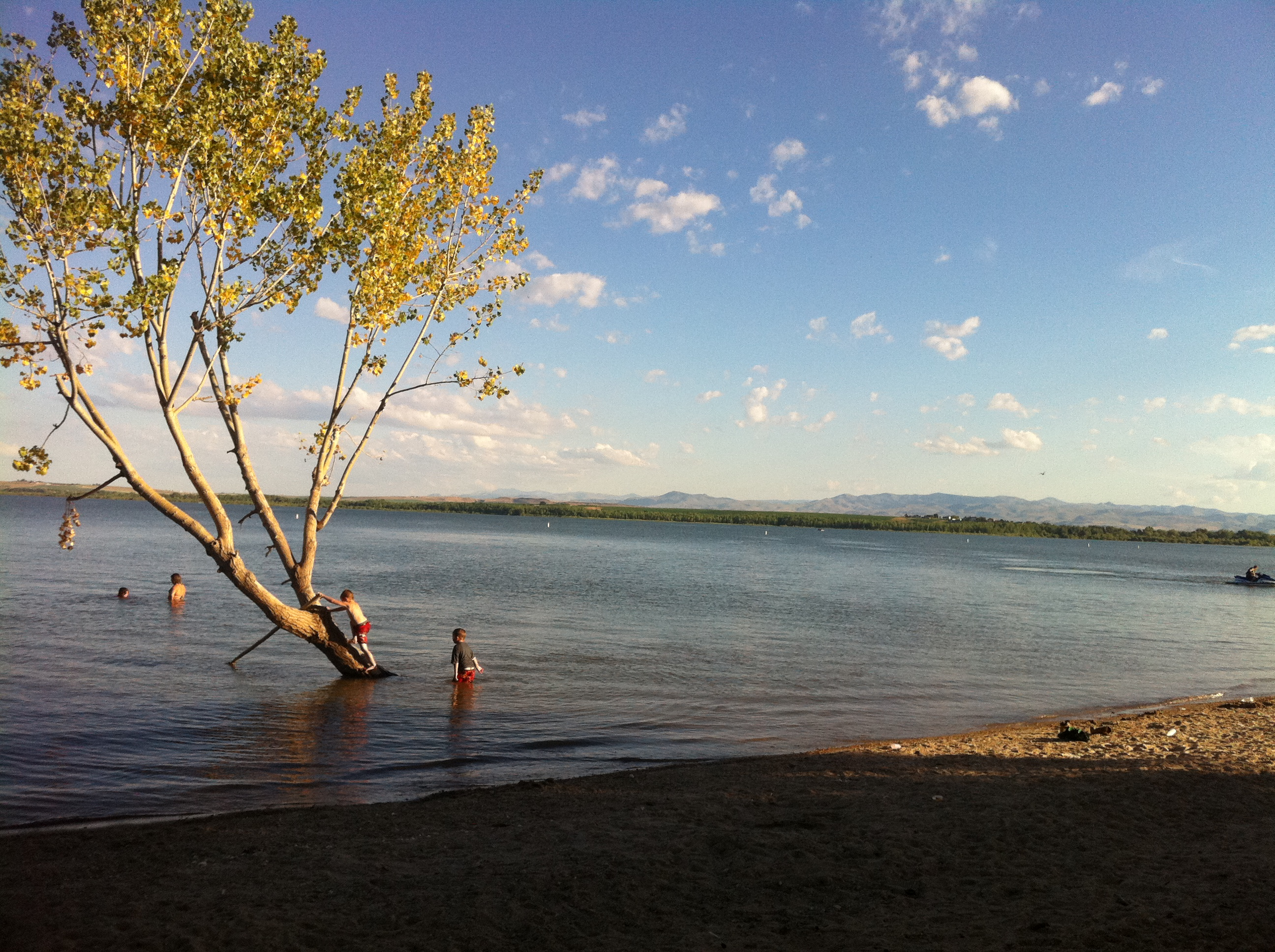 Photo of Lake Lowell in Deer Flat Refuge near Nampa, Idaho.